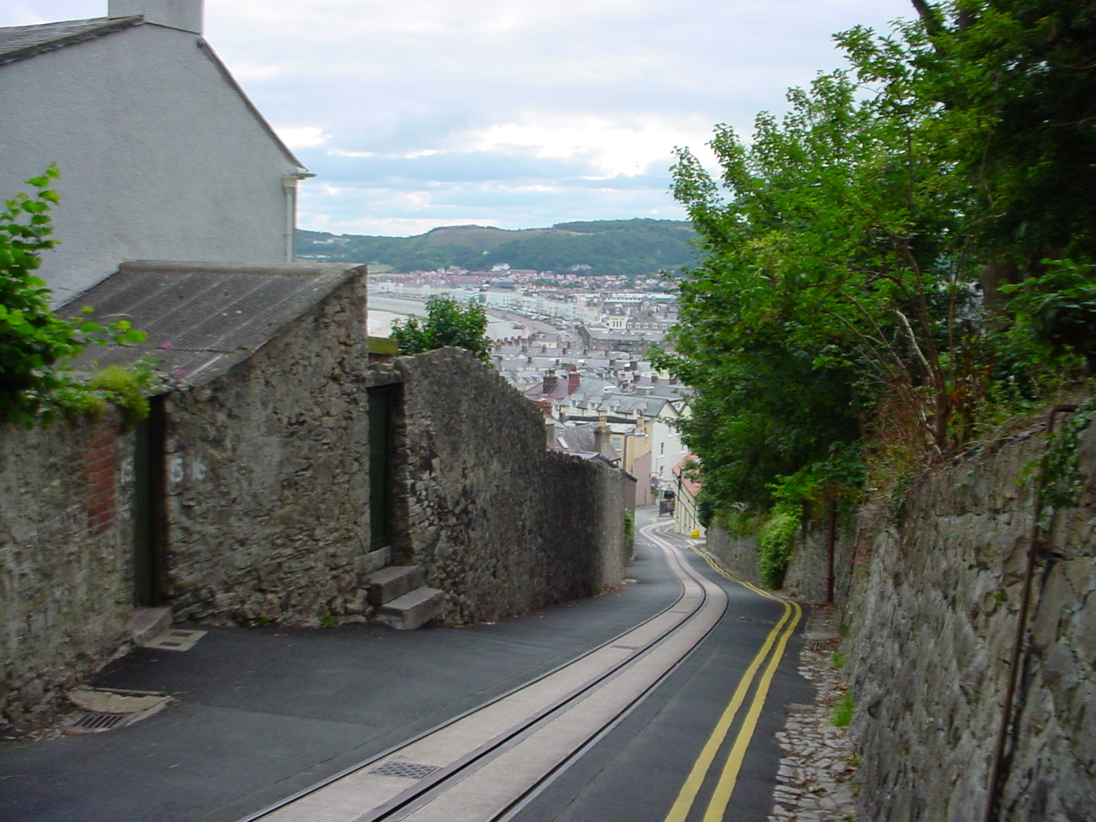 The Great Orme Tramway looking down Old Road and east over Landudno Bay.